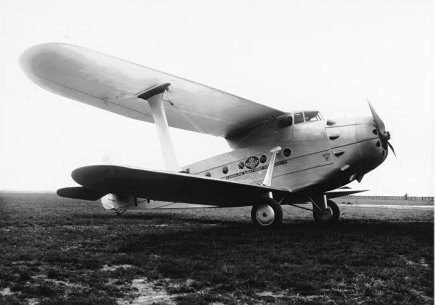 "Jumbo" freighter plane built by dutch manufacturers Werkspoor (engine) and Pander in 1930/31